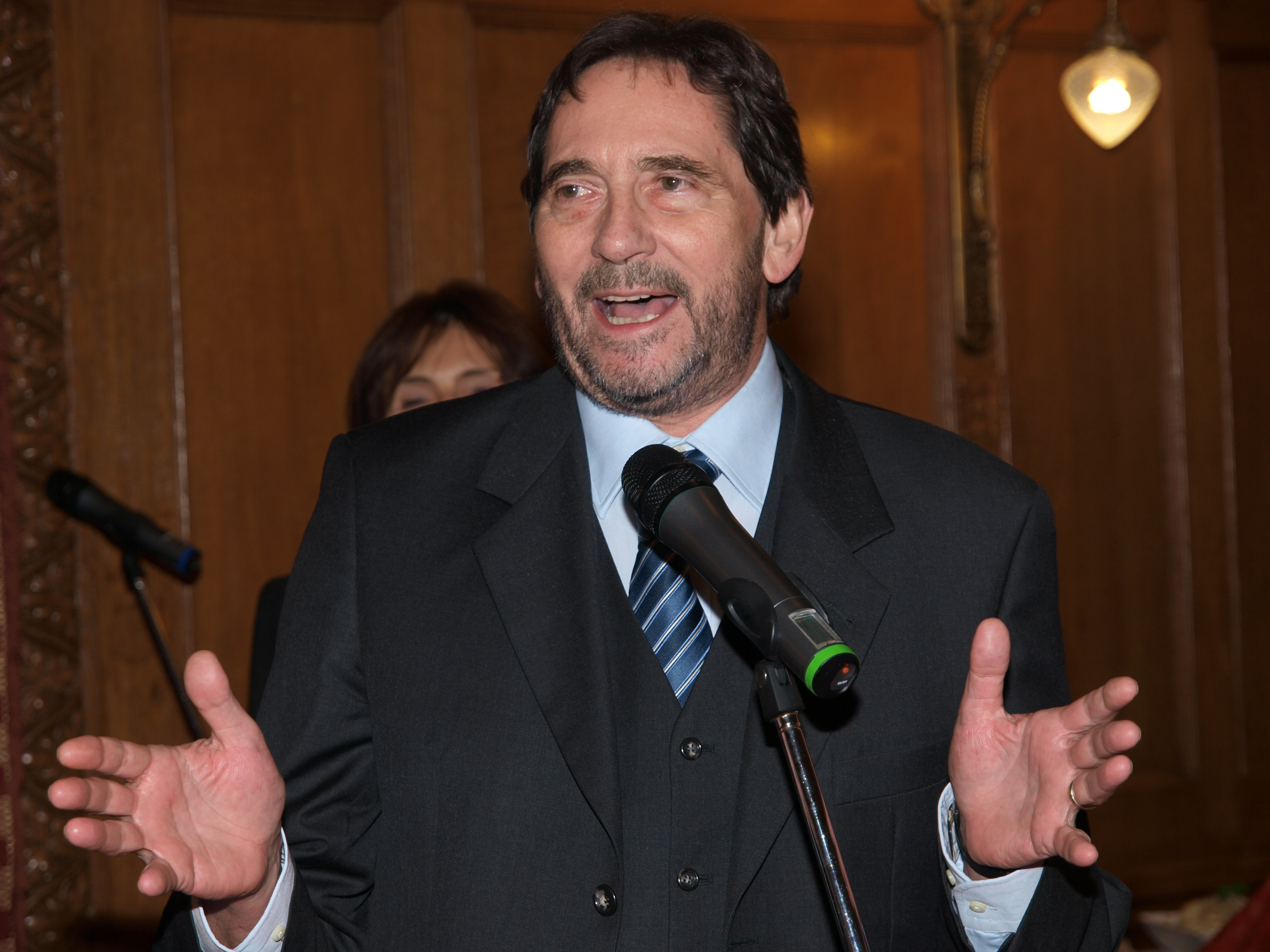 Béla Katona, president of the Hungarian Parliament